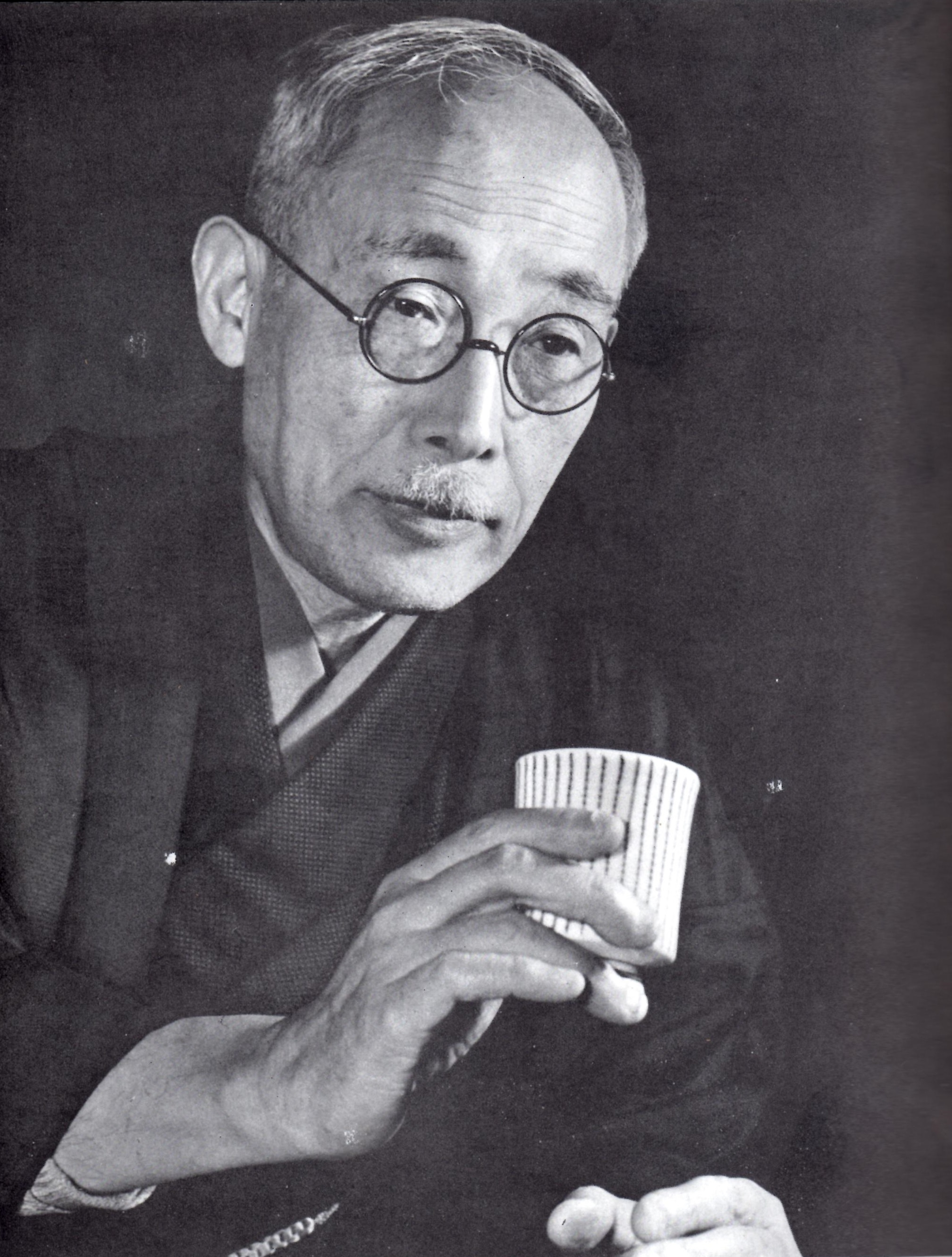 Japanese style painter and calligrapher, Yukihiko Yasuda (1884-1978)